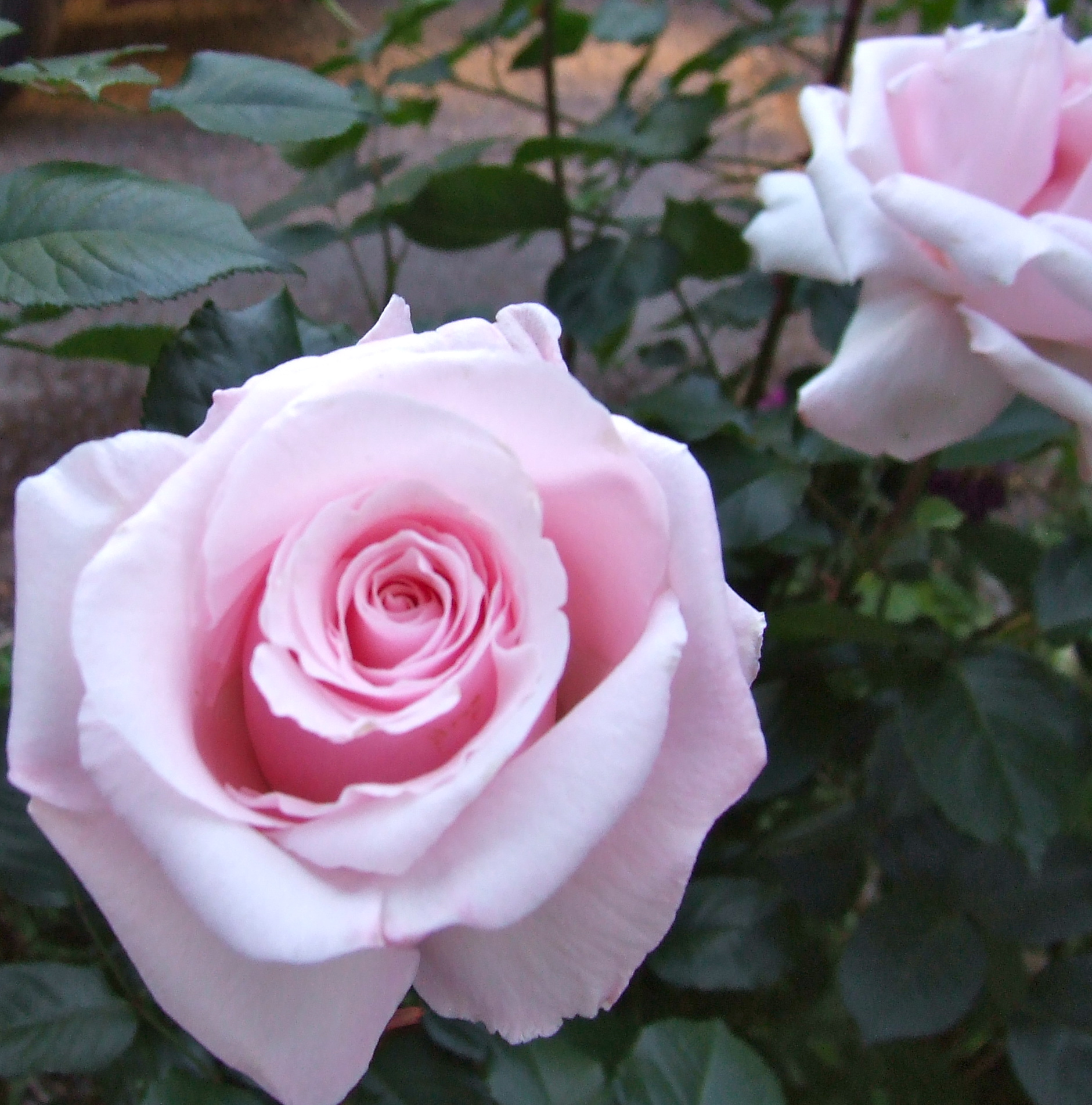 Hybrid Tea rose 'Anna Pavlova', created by Peter Beales in 1981